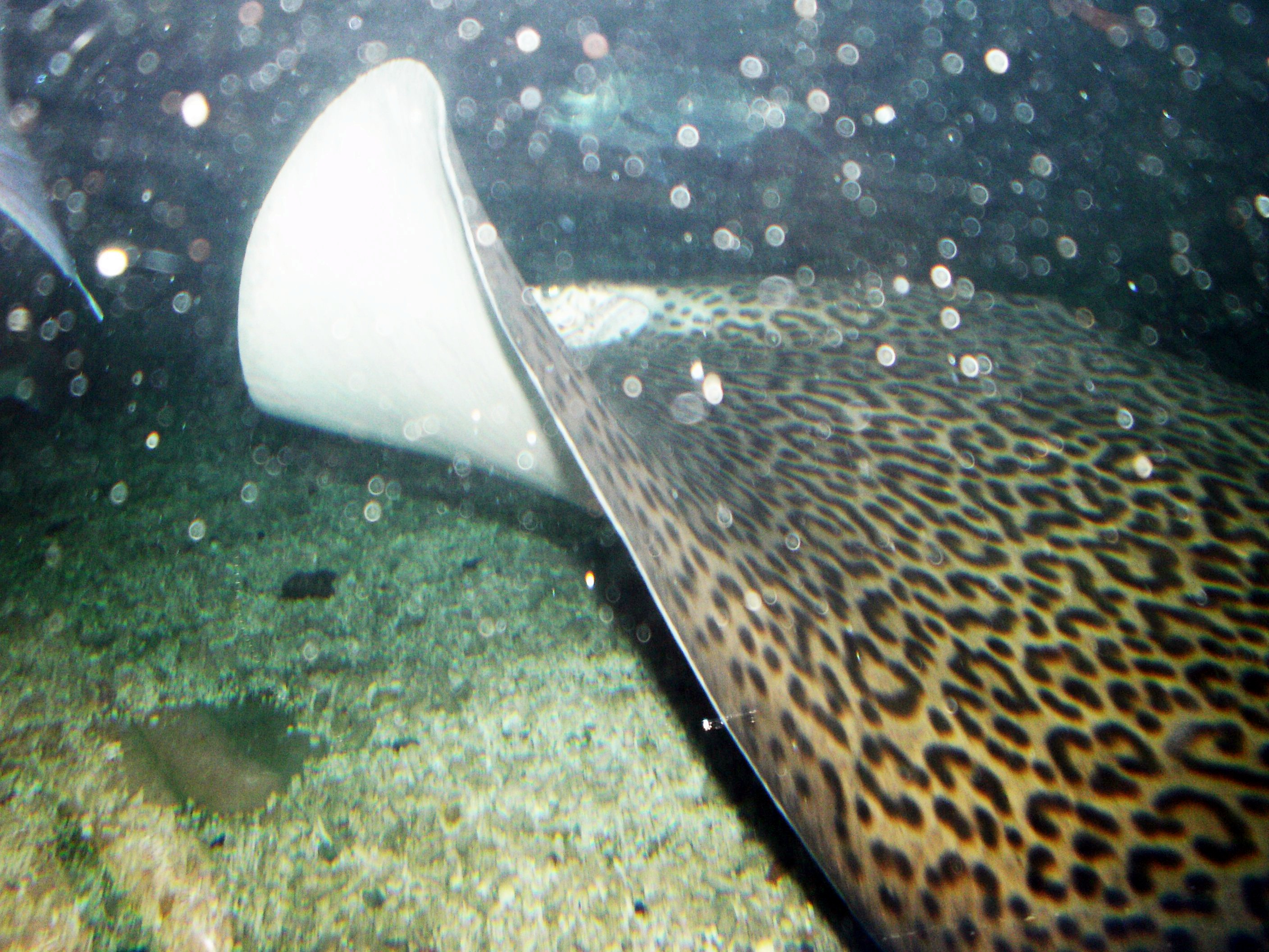 Leopard whipray (Himantura leoparda) at Underwater World in Mooloolaba, Queensland, Australia. From ray pictures by